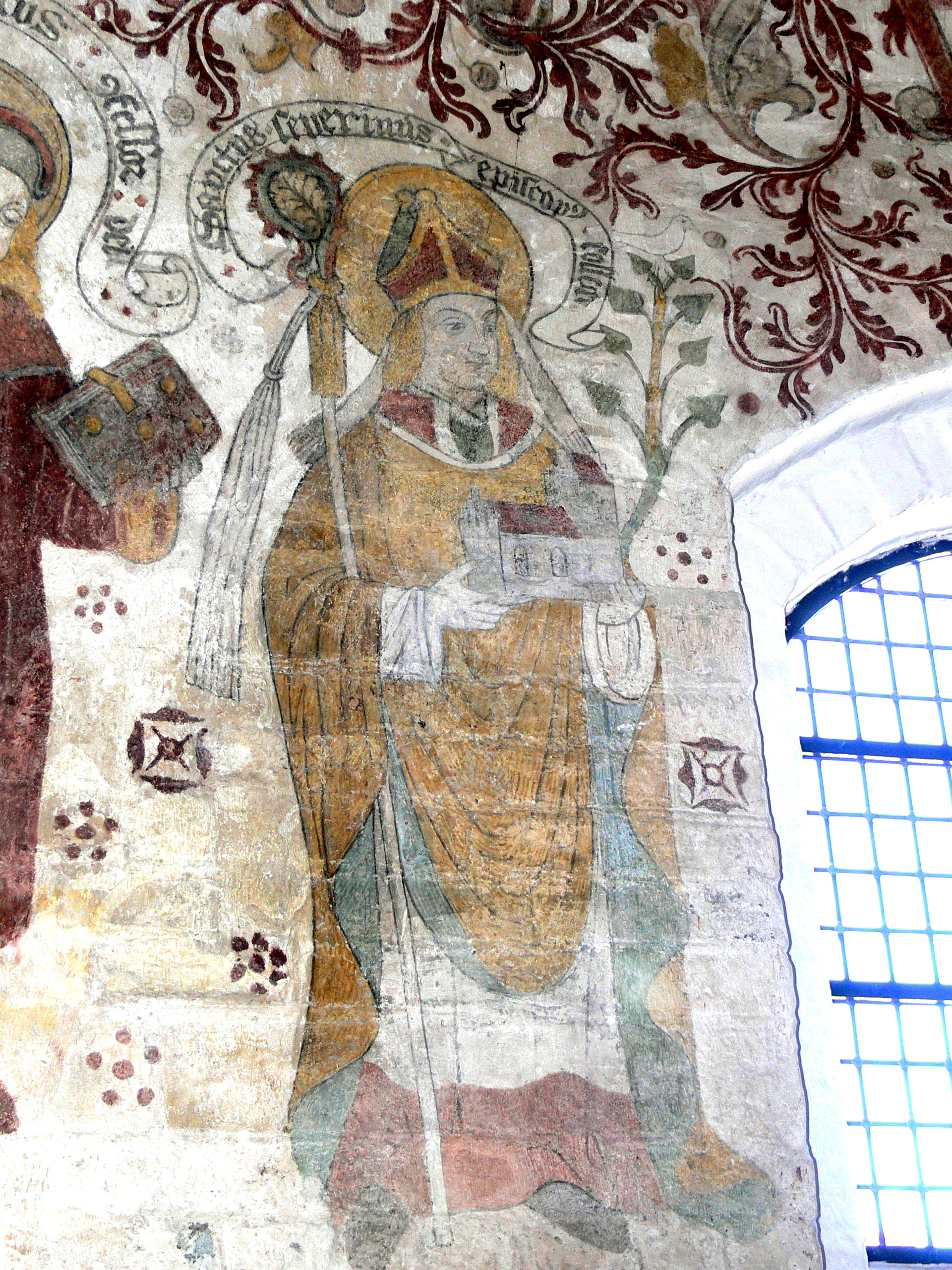 Stubbekøbing parish church. Fresco of Saint Severin of Cologne.